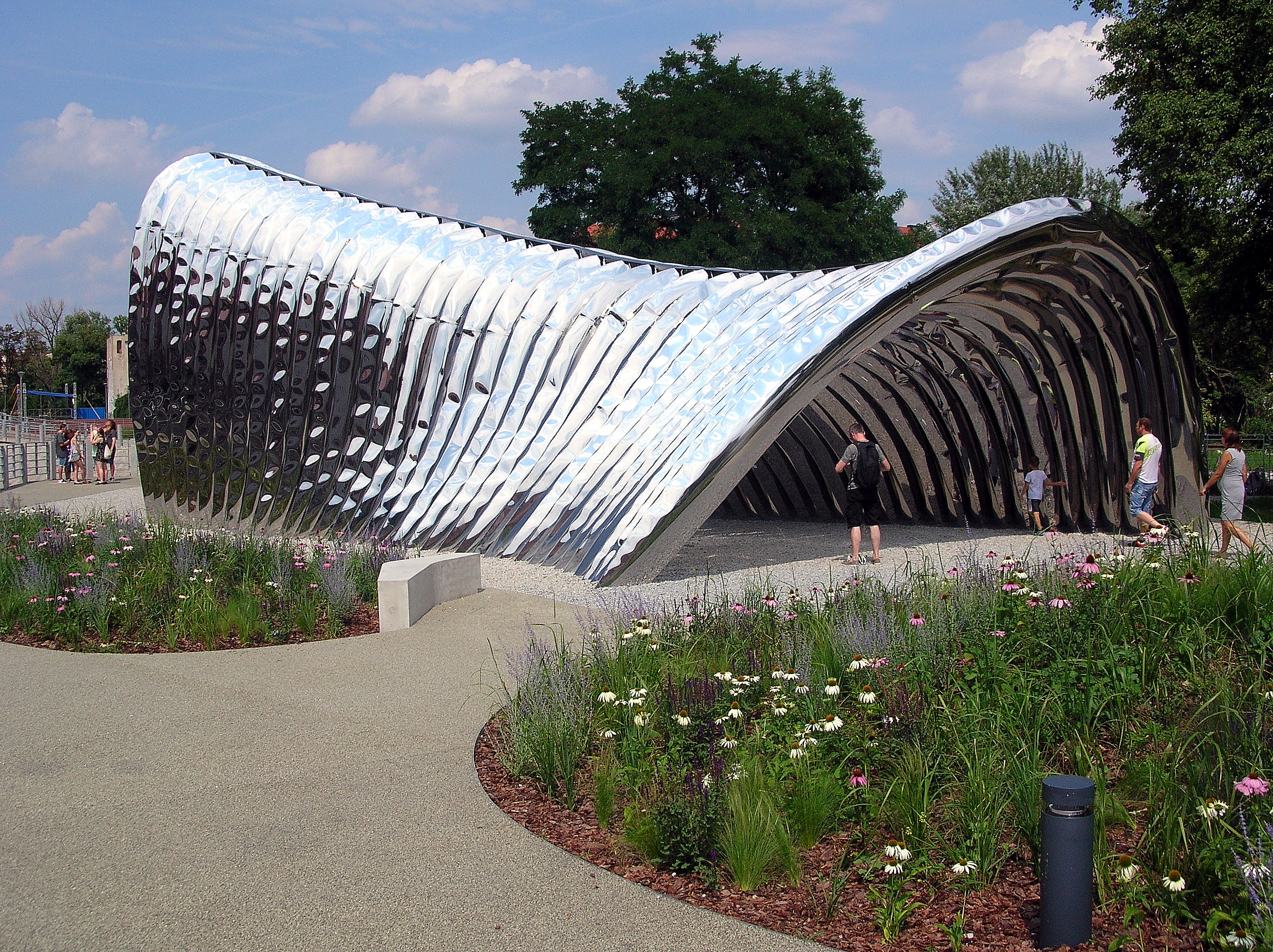 Daliowa island and sculpture by Oskar Zięta. Wrocław, Poland.